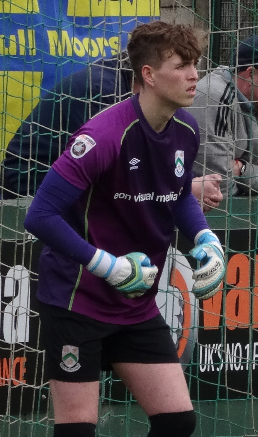 Rory Watson playing for North Ferriby United against Solihull Moors at Grange Lane, North Ferriby on 18 March 2017